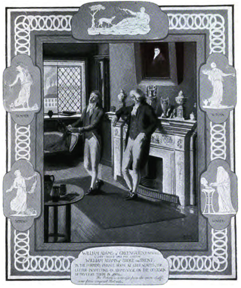 Depiction of William Adams & William Adams in Greengates, North Staffordshire, late 18th century.